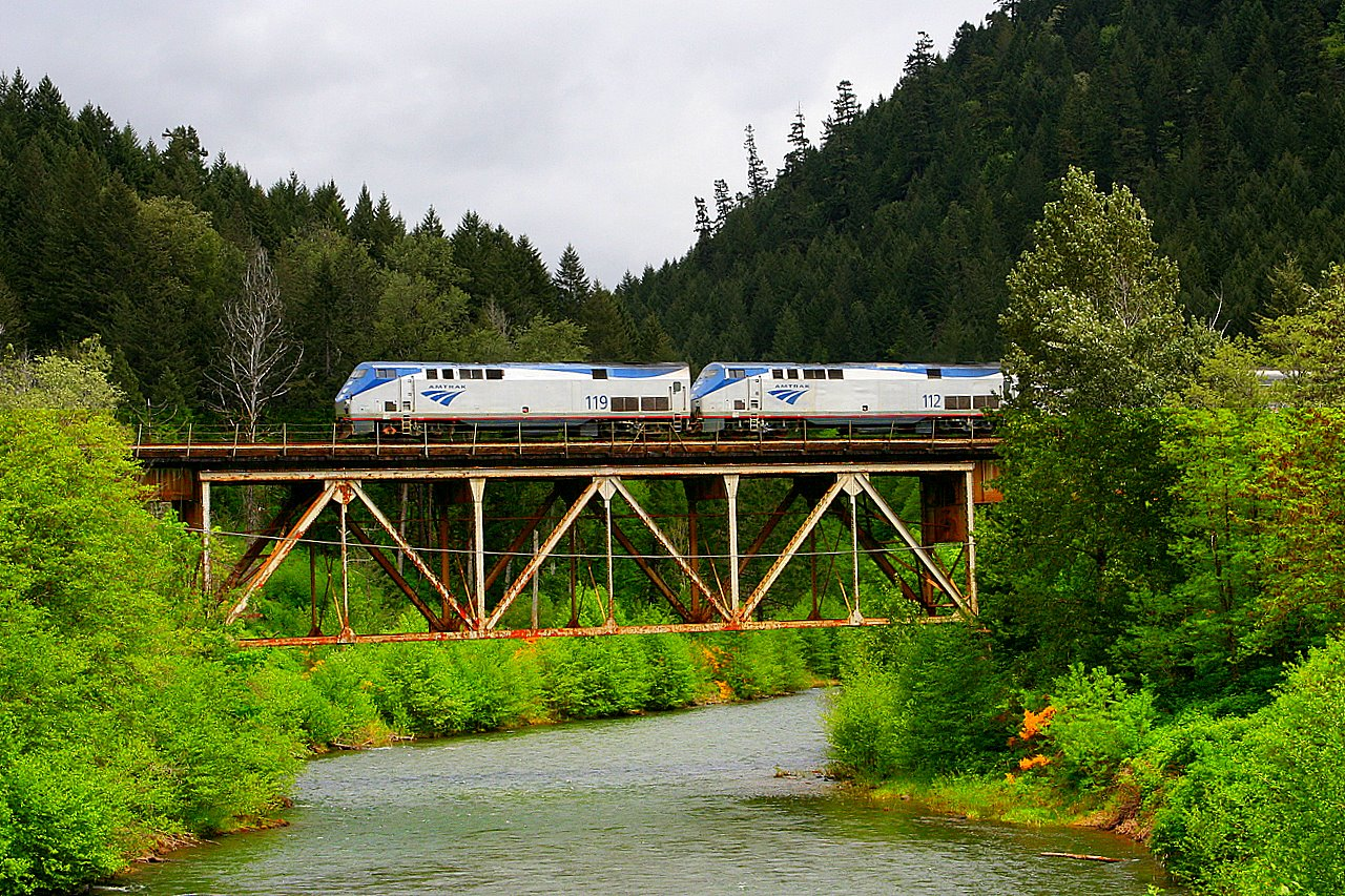 Amtrak's Coast Starlight crossing the North Fork of the Willamette River at Westfir, OR.